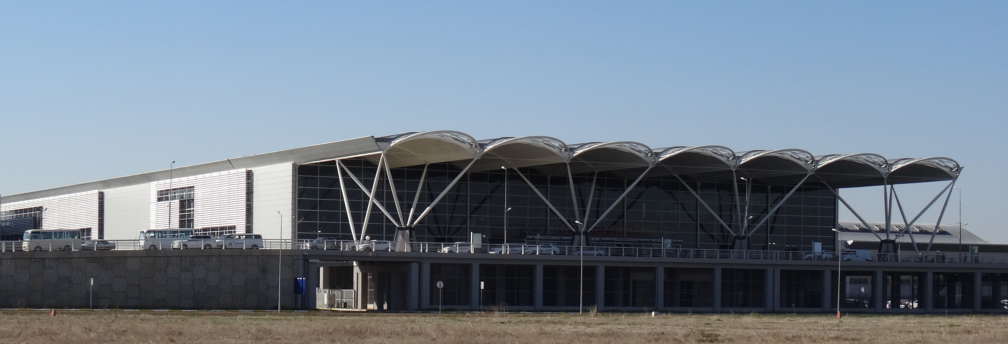 The Erbil International Airport terminal building, Iraqi Kurdistan.